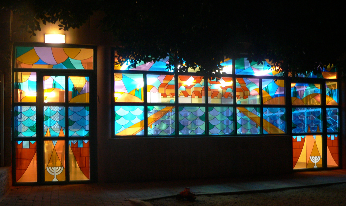 Synagogue design by Michael Yachilevich. The original design made by Ma'ale Adumim resident, known artist Michael Yachilevich (Russian: Михаил Яхилевич) for synagogue "Hebrew: Alei higayon bekinor", where he himself a congregant in Ma'ale Adumim. Uses symbols of associated organization Machanaim altogether with allusions to the Bible, Aggadah etc. The place is found at Hallil str., 13, Ma'ale Adumim.